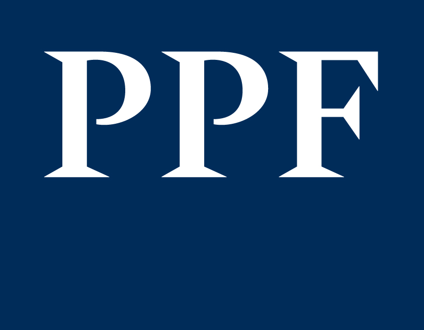 Logo of PPF company